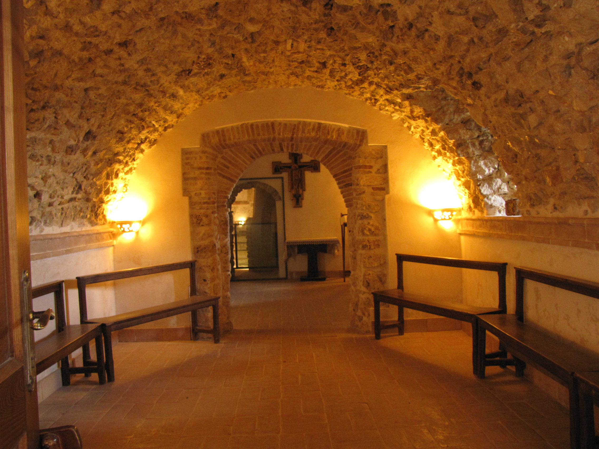 Sanctuary of Poggio Bustone (Province of Rieti, Lazio, Italy)